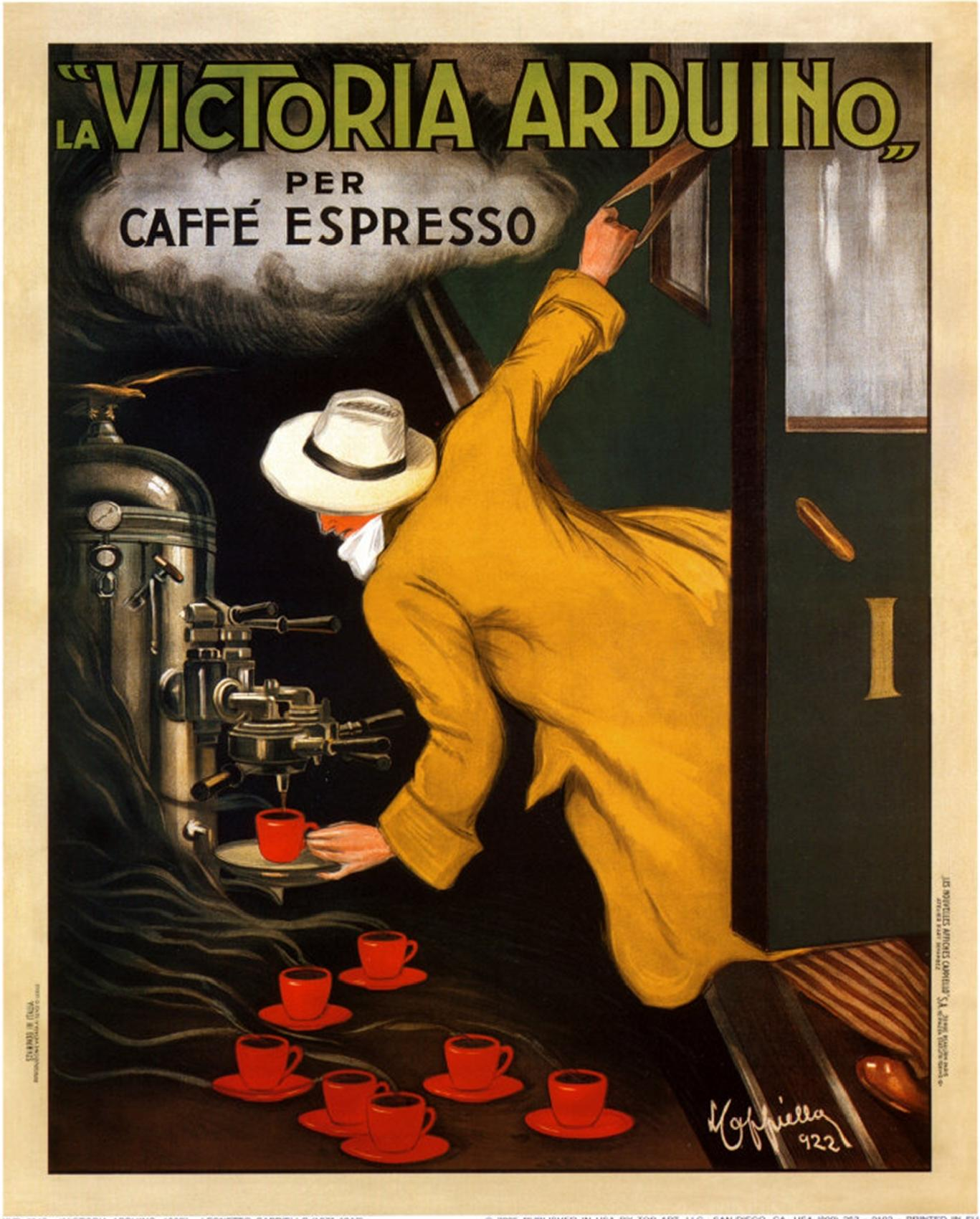 Advertising poster for Victoria Arduino by Leonetto Cappiello - 1922.